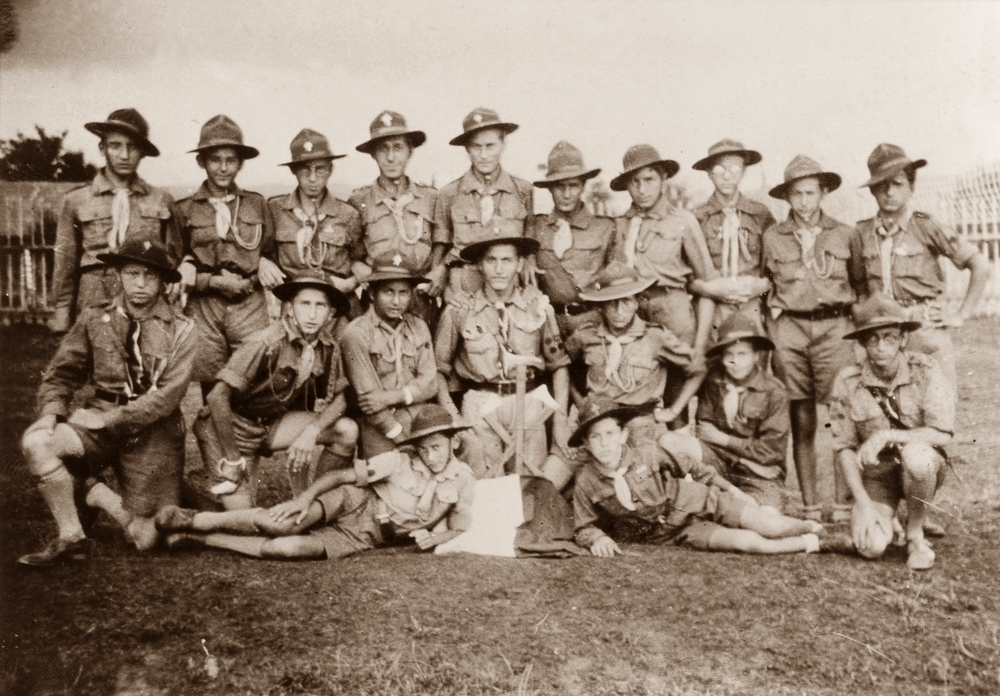 Scouting team of the Hanoar Hacijoni Bielsko-Biała Jewish Cultural and Educational Association, circa 1935